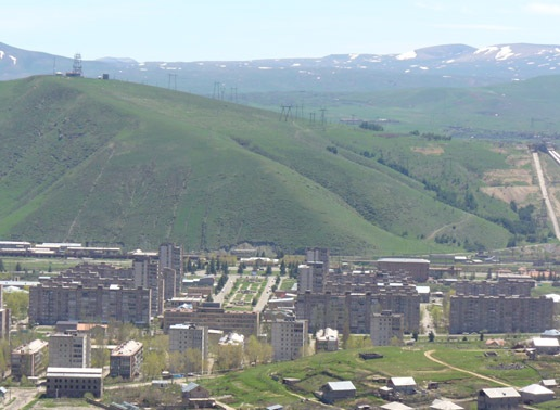 Hrazdan, Armenia